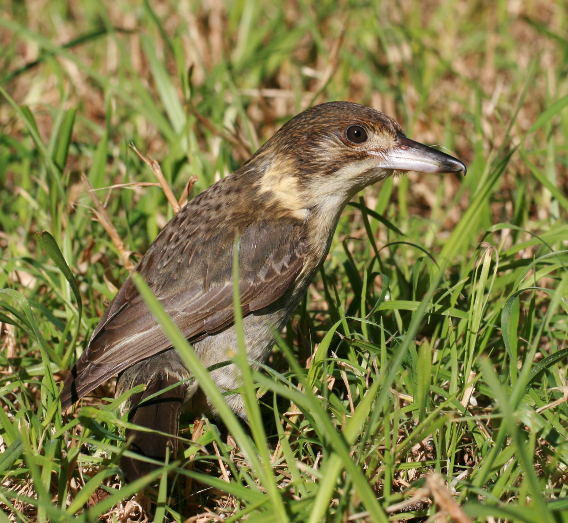 A juvenile Grey Butcherbird (Cracticus torquatus) in grass at Georges River National Park.